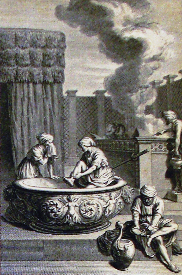 A print from the Phillip Medhurst Collection of Bible illustrations in the possession of Revd. Philip De Vere at St. George’s Court, Kidderminster, England.